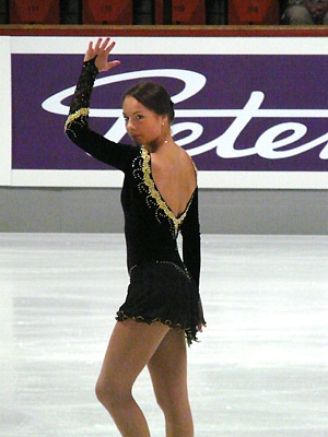 Elena Glebova during her short program at the 2007 Nebelhorn Trophy.